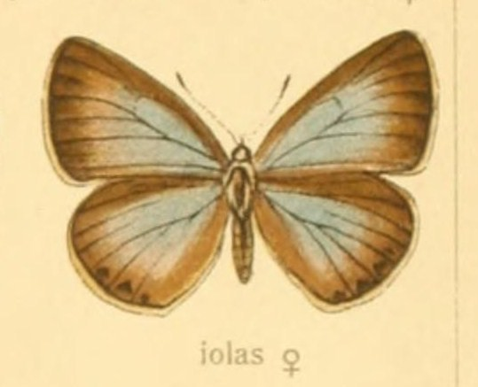 Iolana iolas female